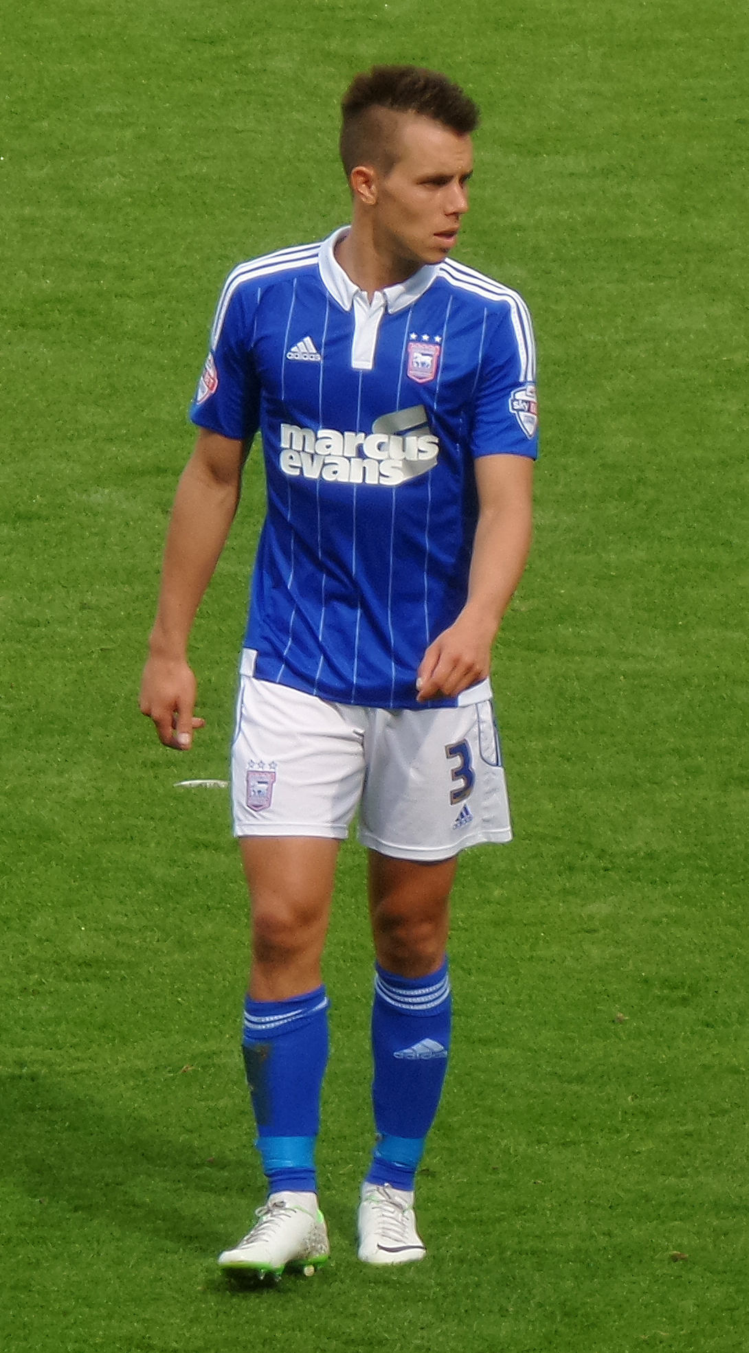 Jonas Knudsen playing on his Ipswich Town home debut against Sheffield Wednesday on 15 August 2015